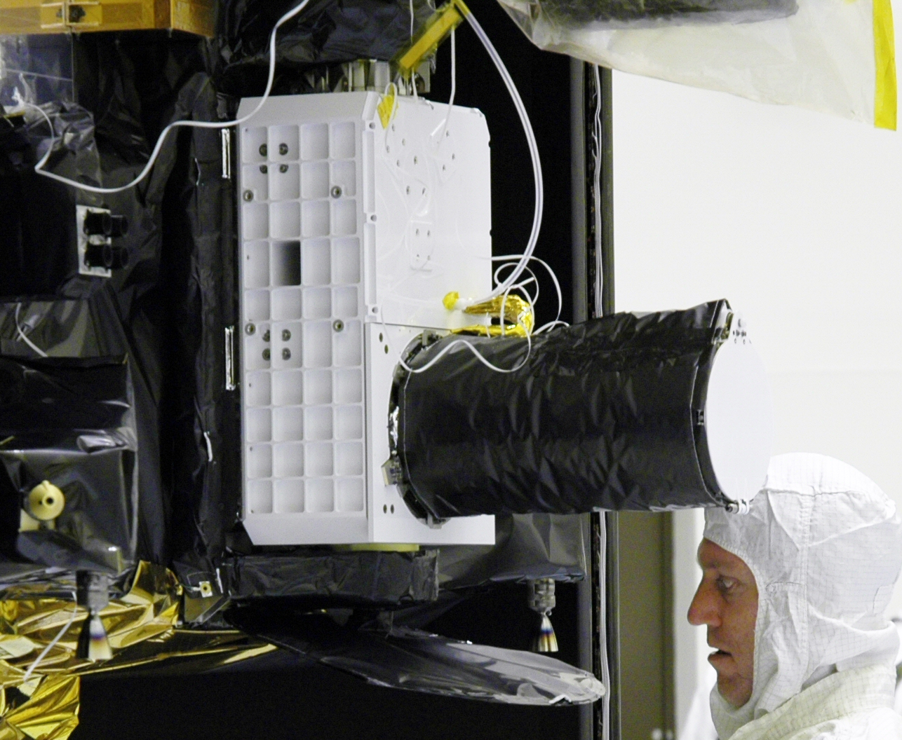 With the Compact Reconnaissance Imaging Spectrometer for Mars (CRISM) instrument just above his head, a technician at NASA’s Kennedy Space Center works on the Mars Reconnaissance Orbiter spacecraft in July 2005. CRISM, the first visible-infrared spectrometer to fly on a NASA Mars mission, will look for the residue of minerals that form in the presence of water – the “fingerprints” left by evaporated hot springs, thermal vents, lakes or ponds. The Johns Hopkins University Applied Physics Laboratory (APL) in Laurel, Md., led the effort to develop, test and integrate CRISM. Principal Investigator Scott Murchie, of APL, leads the CRISM project.